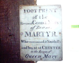 George Marsh Foot Print